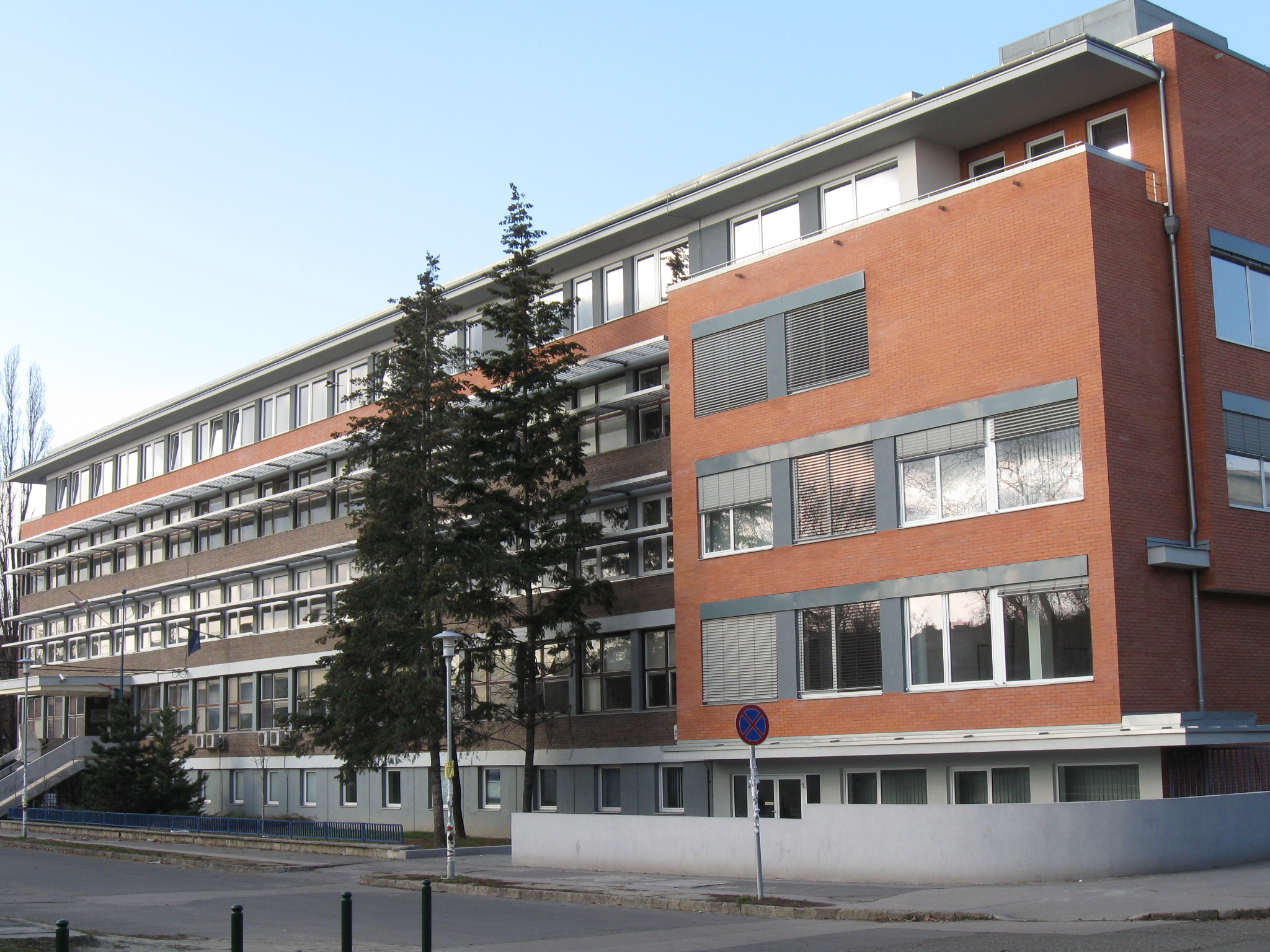 Budapest Business School - 1149 Budapest, Buzogány str. 10 - 12., Hungary